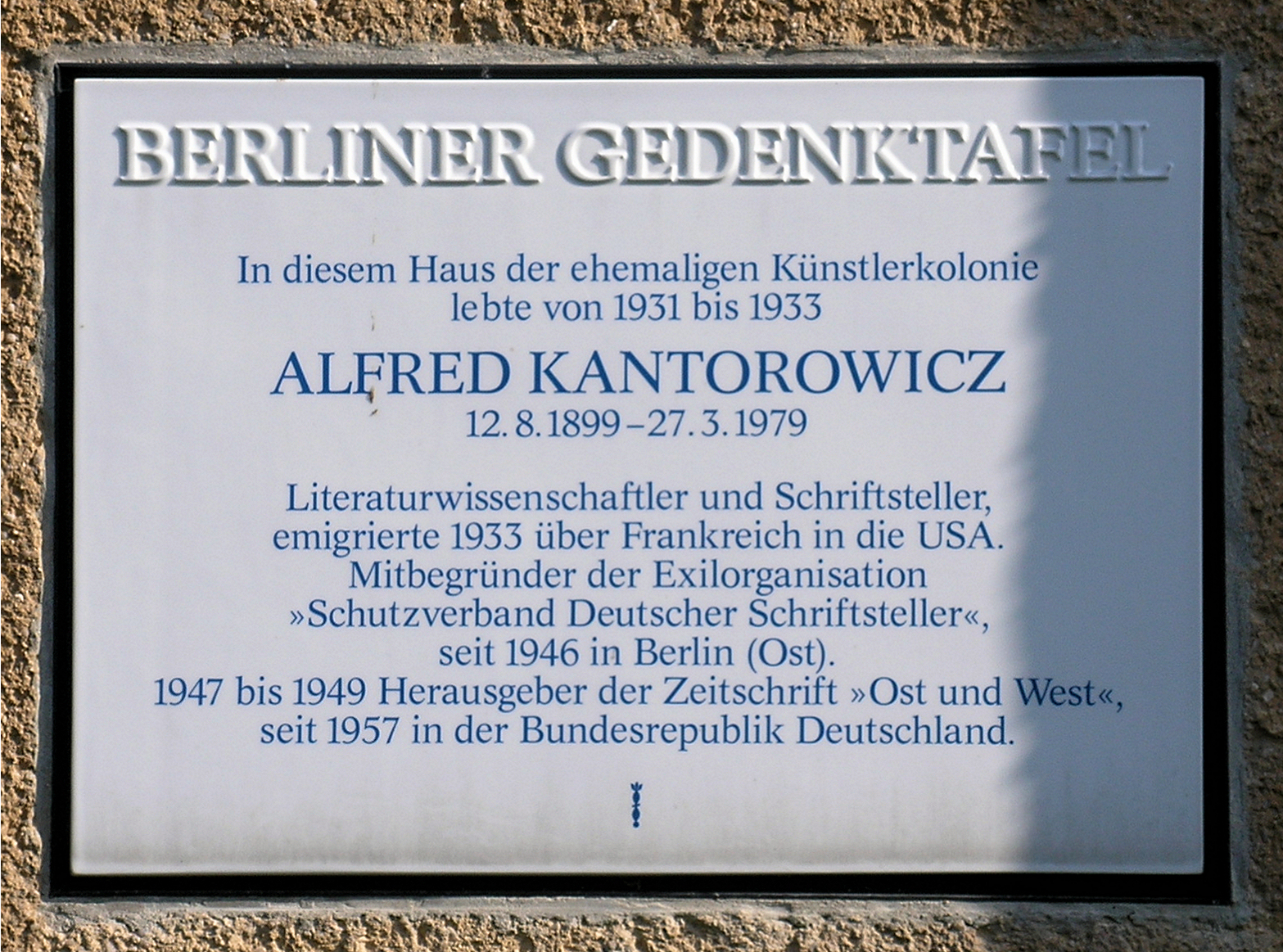 Berlin memorial plaque, Alfred Kantorowicz, Kreuznacher Straße 48, Berlin-Wilmersdorf, Germany